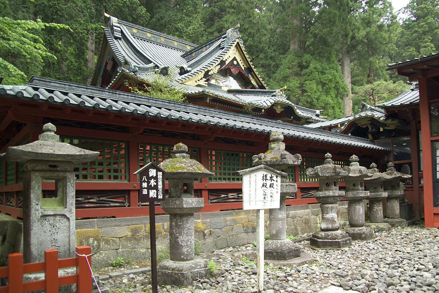 The building beyond the wall is the honden, or main hall, of Futarasan Shrine in Nikko, Tochigi Prefecture, Japan. The shrine is a UNESCO World Heritage Site. I took this photo and contribute my rights in the file to the public domain; individuals and organizations retain rights to images in it.